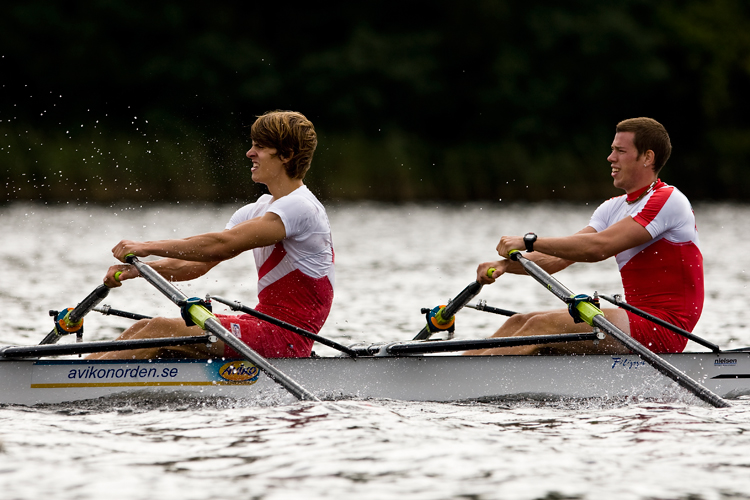 Swedish rower Kevin and Dennis at the national championships competing in doublesculls.